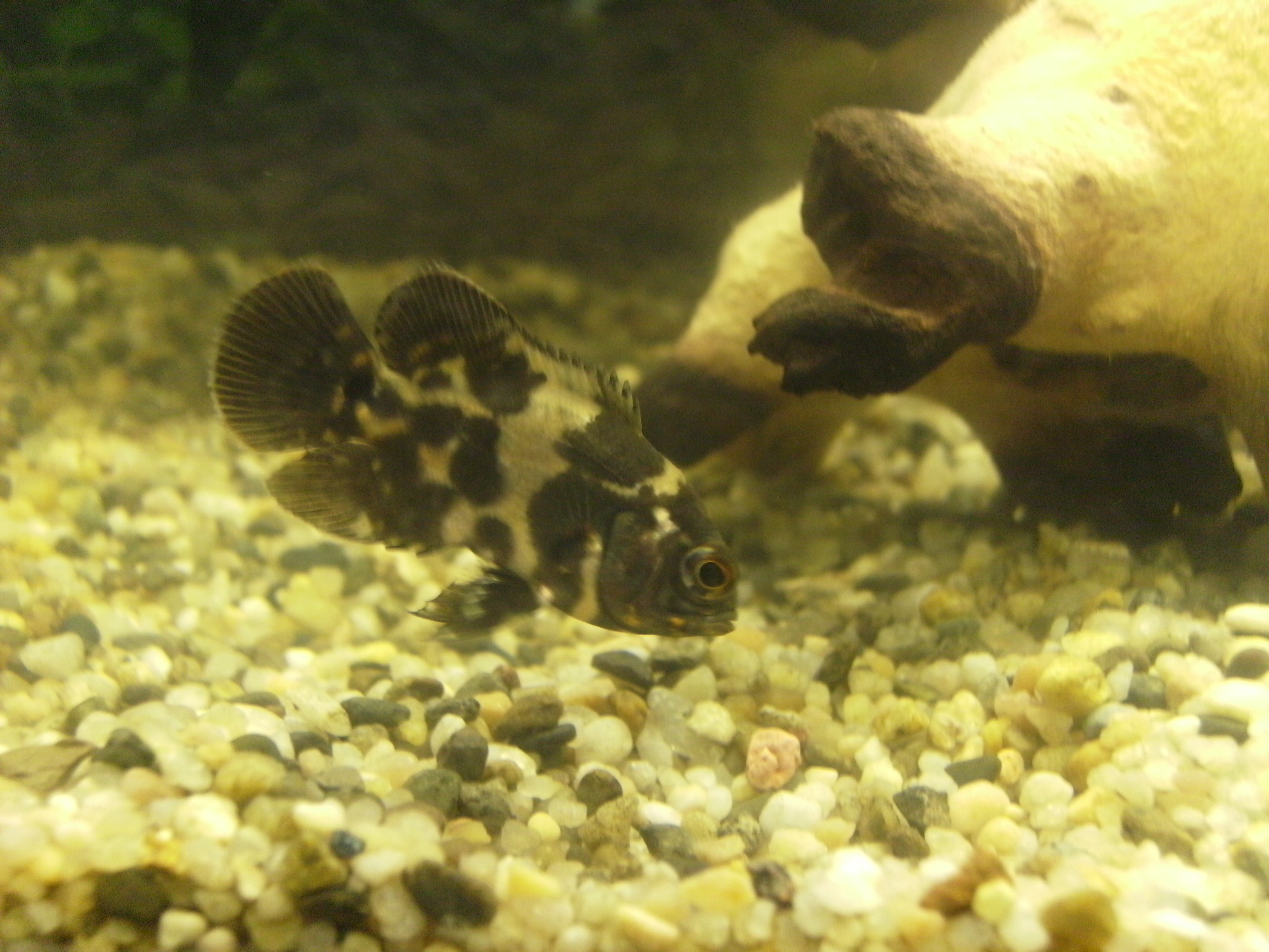 picture of baby oscar cichlid